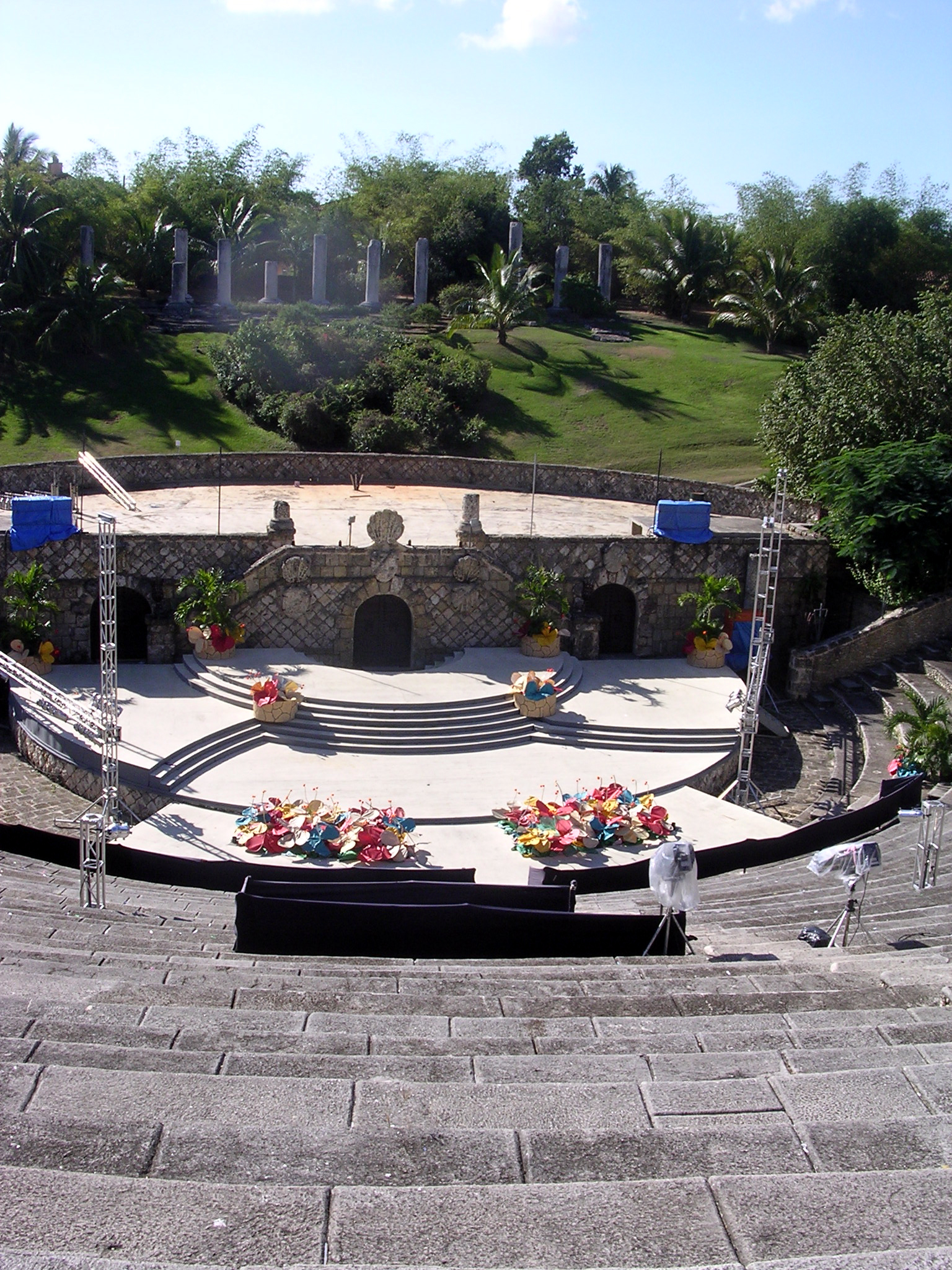 Theater at Altos de Chavón (Note: not an amphitheatre!)